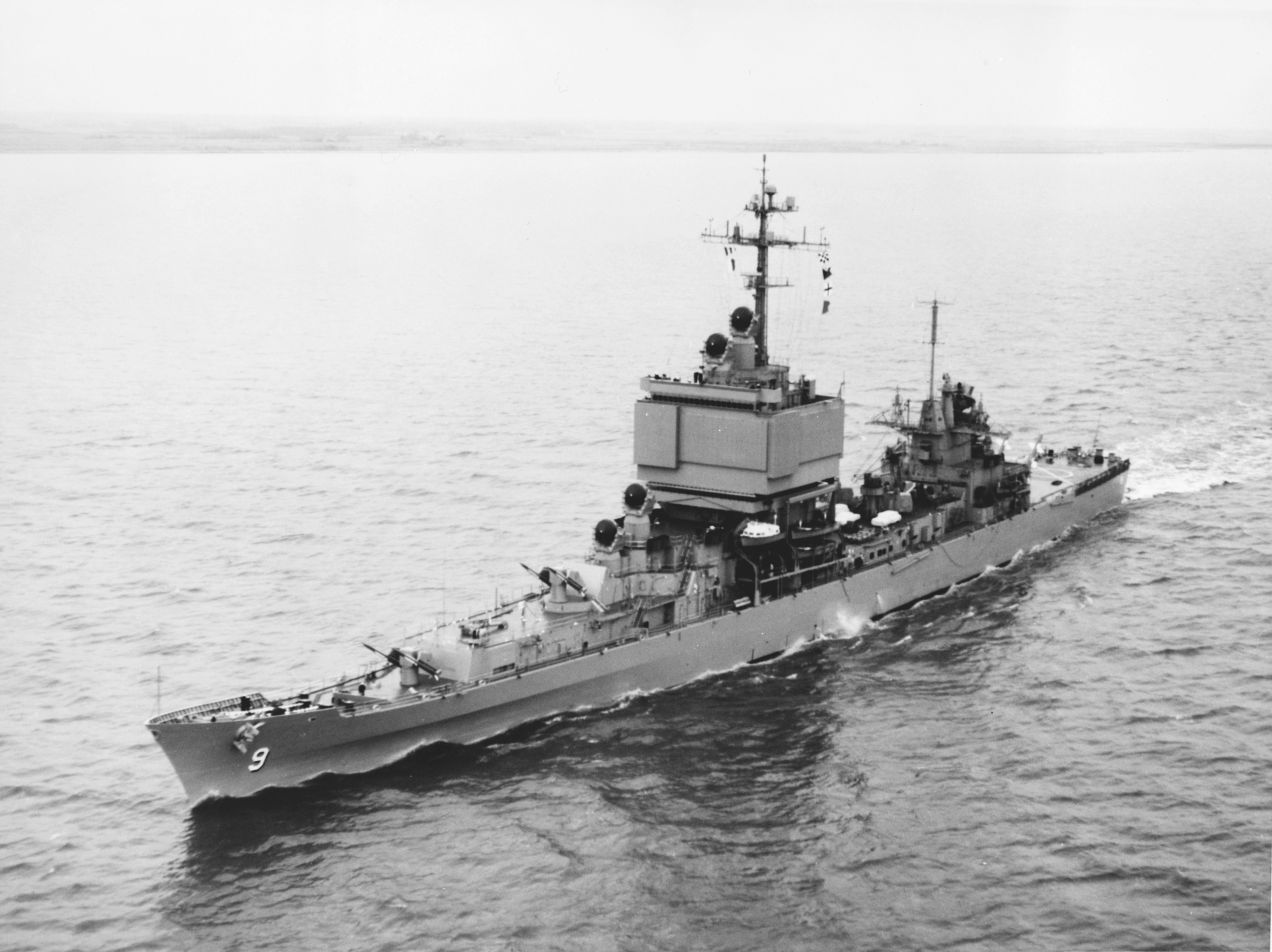 The U.S. Navy guided missile cruiser USS Long Beach (CGN-9) underway in April 1963.